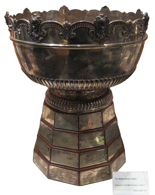 Walter A. Brown Trophy located at the Basketball Hall of Fame